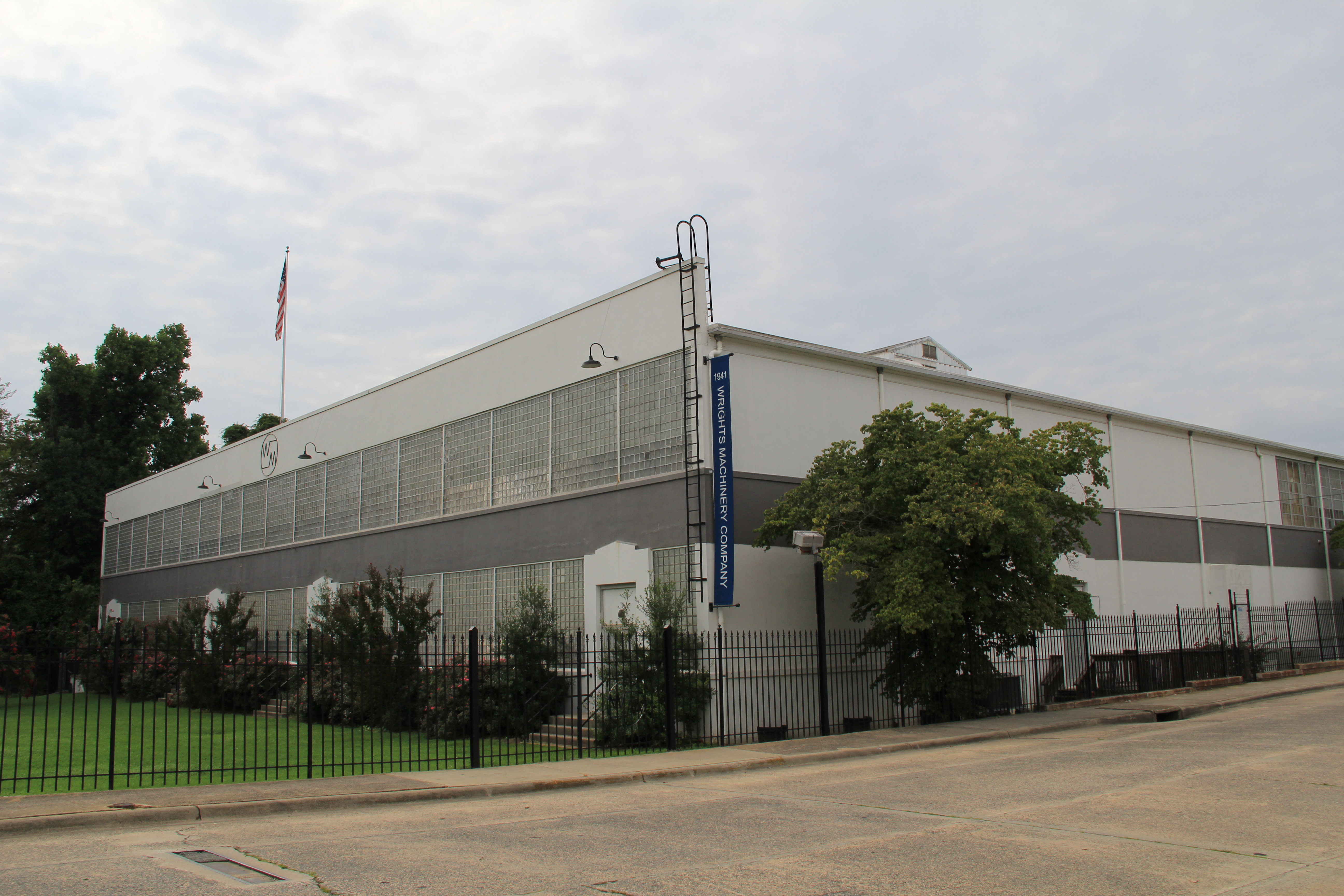 Wright's Machinery Company historic building, Durham, North Carolina, 2014. Uploaded as part of the Wikimedia loves Monuments 2014 camping trip. This image was uploaded as part of Wikipedia Summer of Monuments. English |+/−